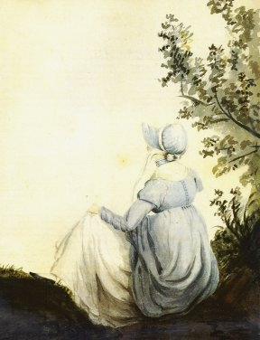 Back-view watercolour of Jane Austen by her sister Cassandra Austen